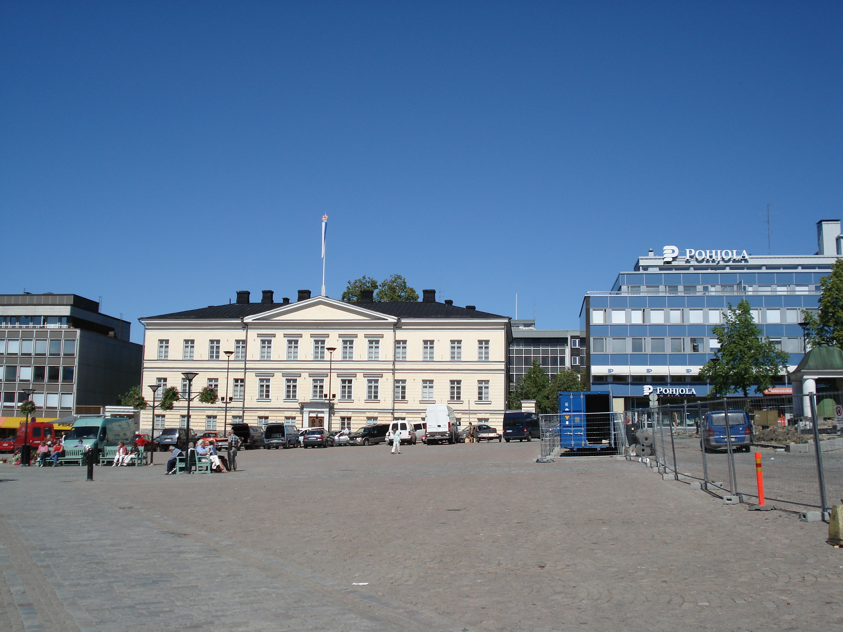 Market square in Hämeenlinna, Finland.